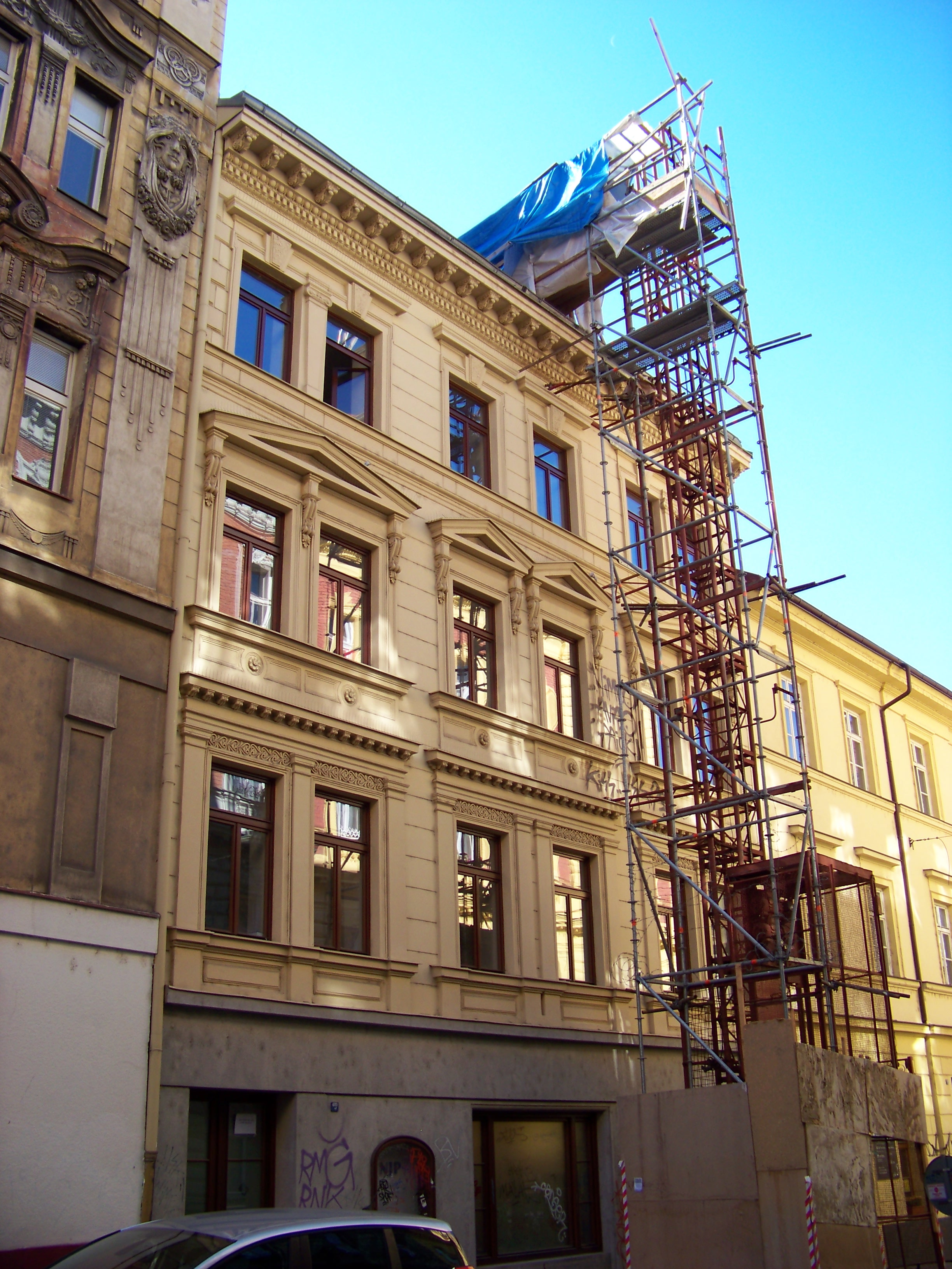 Prague-New Town. V jirchářích 148/4.